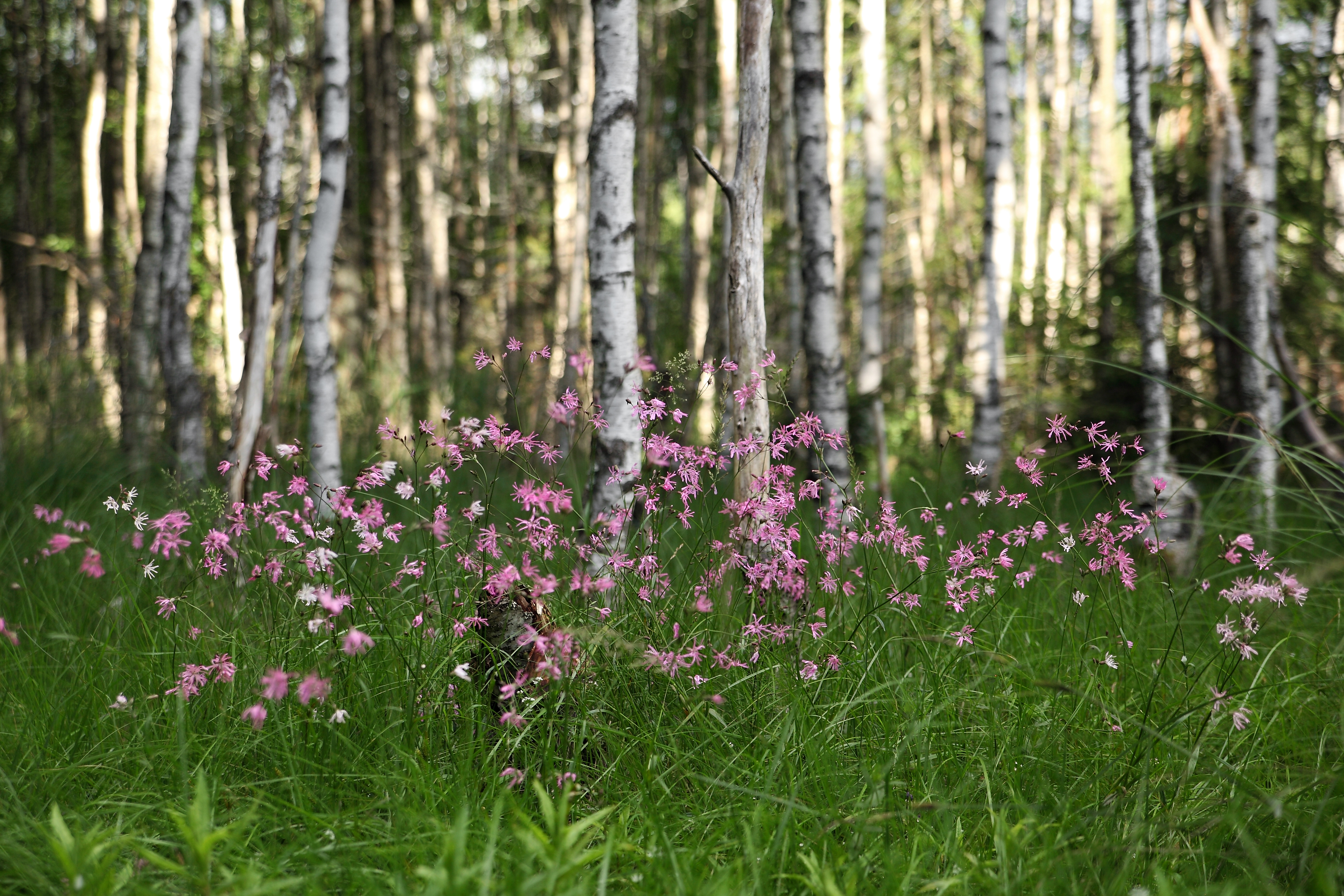 Ragged Robin in Albu Parish, Estonia